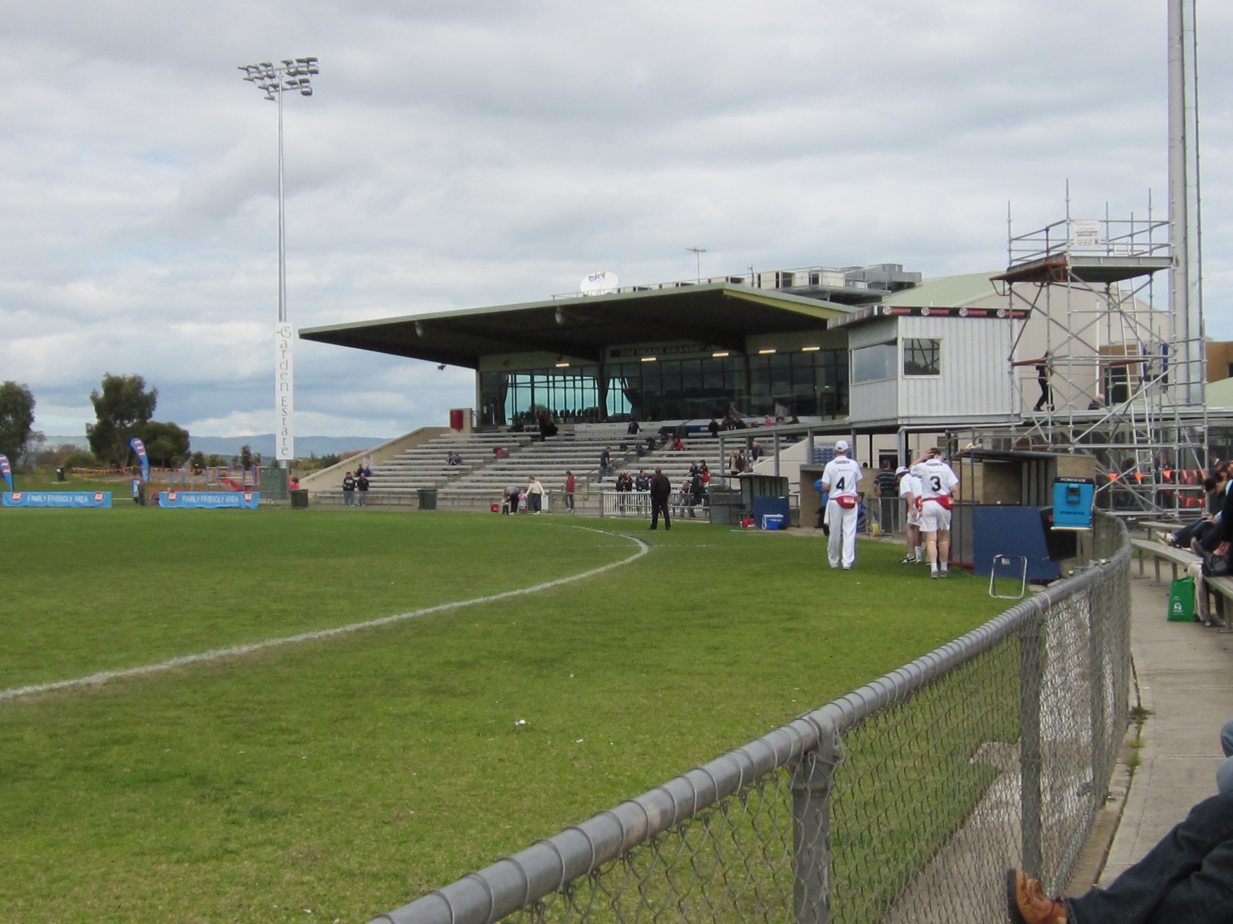 Hickinbothem Oval, August 2011.